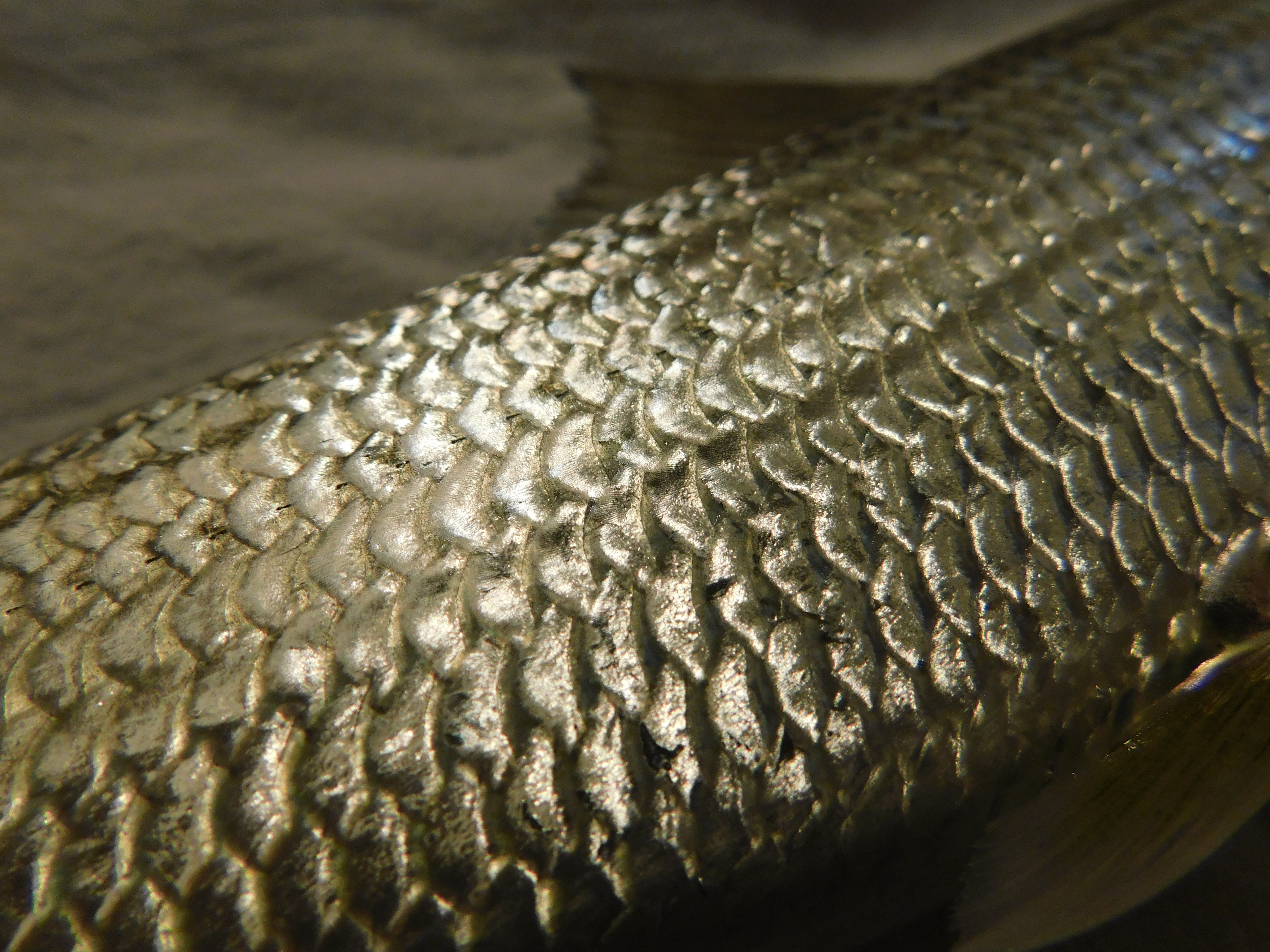 Scales of bonefish, Albula vulpes species complex.